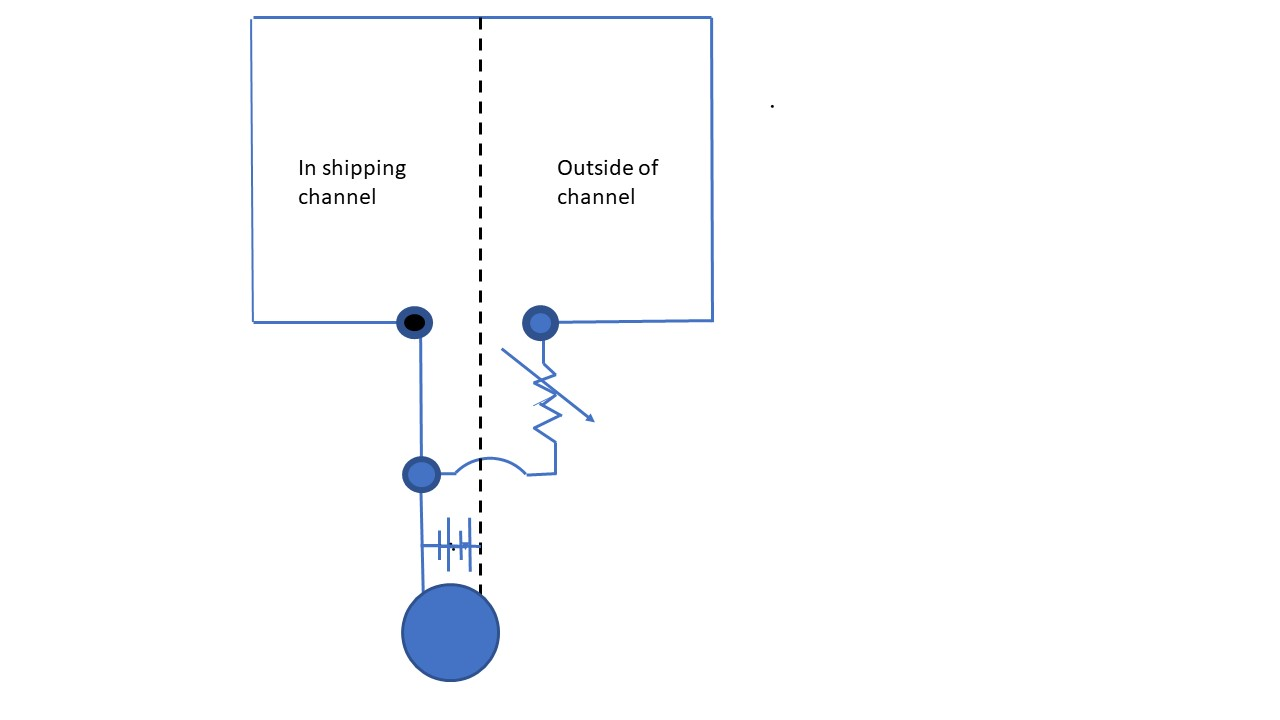 A diagram of an underwater loop for detecting passing vessels